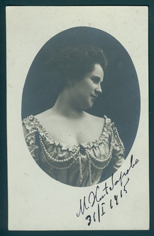 Bulgarian actress Mariya Hlebarova.